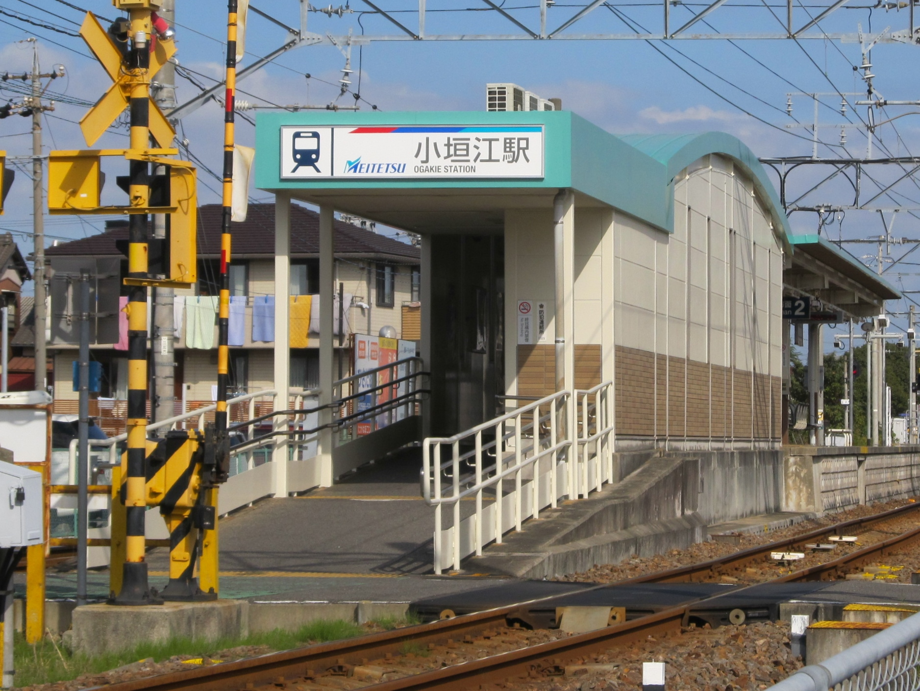 Nagoya Railroad Mikawa Line Ogakie Station Building